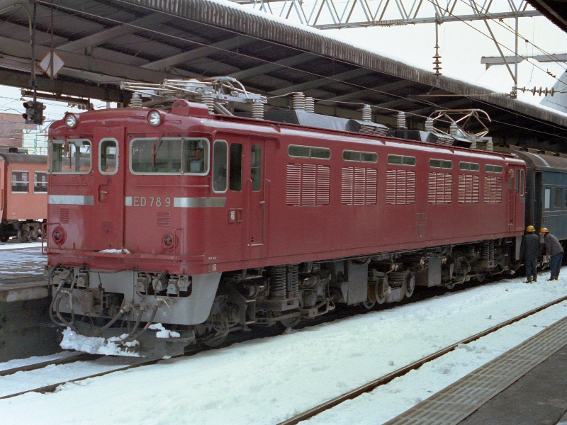 JNR Class ED78 electric locomotive ED78 9 at Sendai Station in Miyagi Prefecture